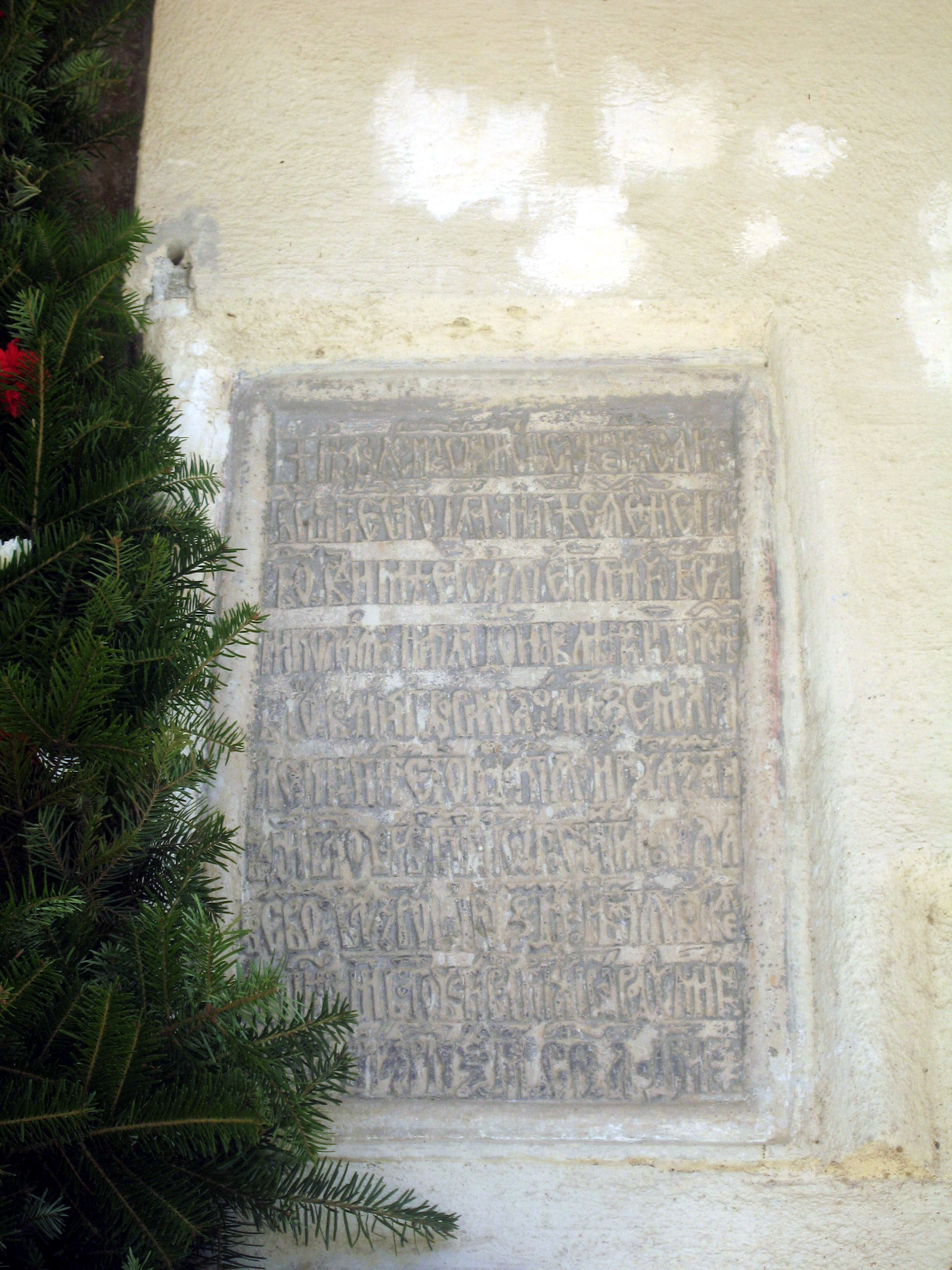 Râşca Monastery